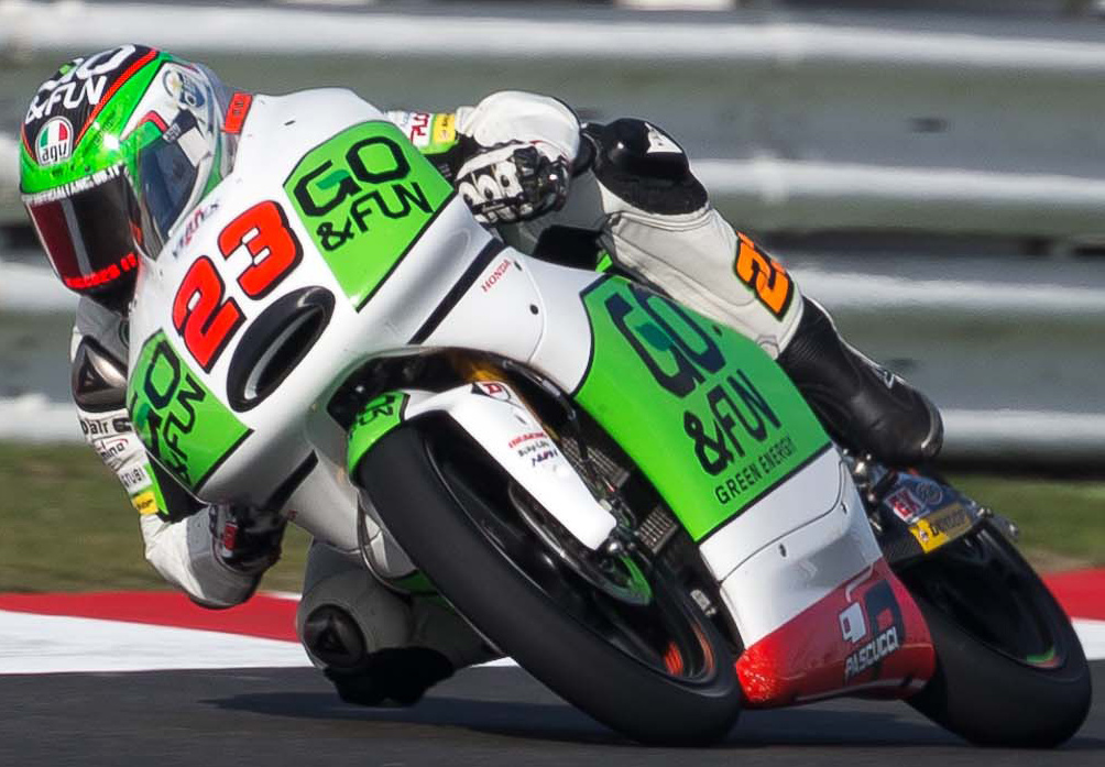 Niccolo Antonelli (#23) and Jakub Kornfeil (#84), Moto3 Practice at Silverstone 31st August 2013, British Grand Prix